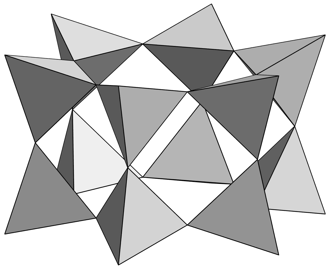 Unbranched 6er double ring of Milarite Data from: Hawthorne F. C., Kimata M., Cerny P., Ball N. A., Rossman G. R., Grice J. D. (1991): The crystal chemistry of the milarite-group minerals, sample #25 from Guanajuato, American Mineralogist 76, pp. 1836-1856 Calculation of image data: Larry W. Finger, Martin Kroeker, and Brian H. Toby: DRAWxtl, an open-source computer program to produce crystal-structure drawings, J. Applied Crystallography V40, pp. 188-192, 2007 Rendering: POVRAY